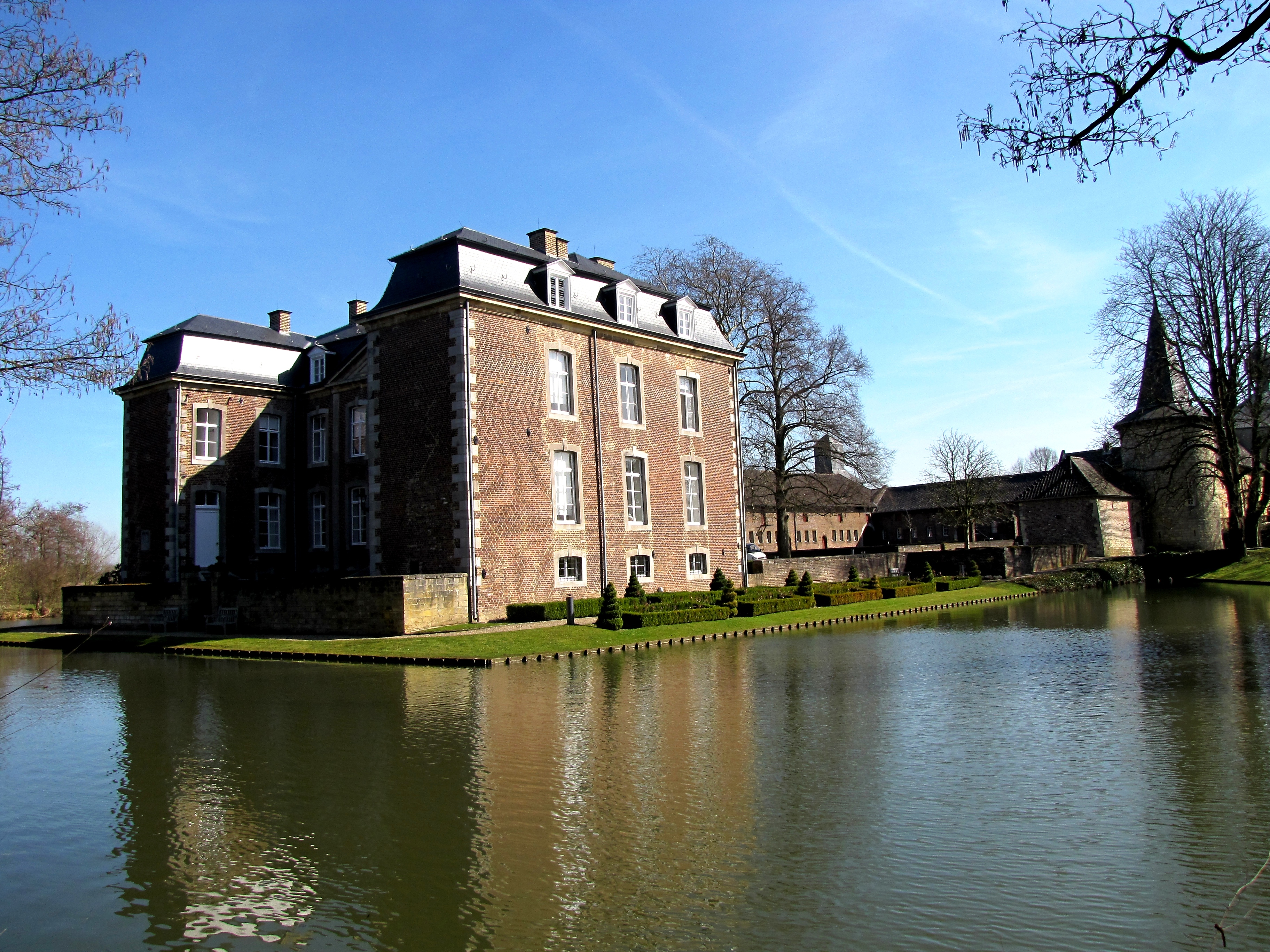 the castlle of Voerendaal-Provence of Limburg, The Netherlands